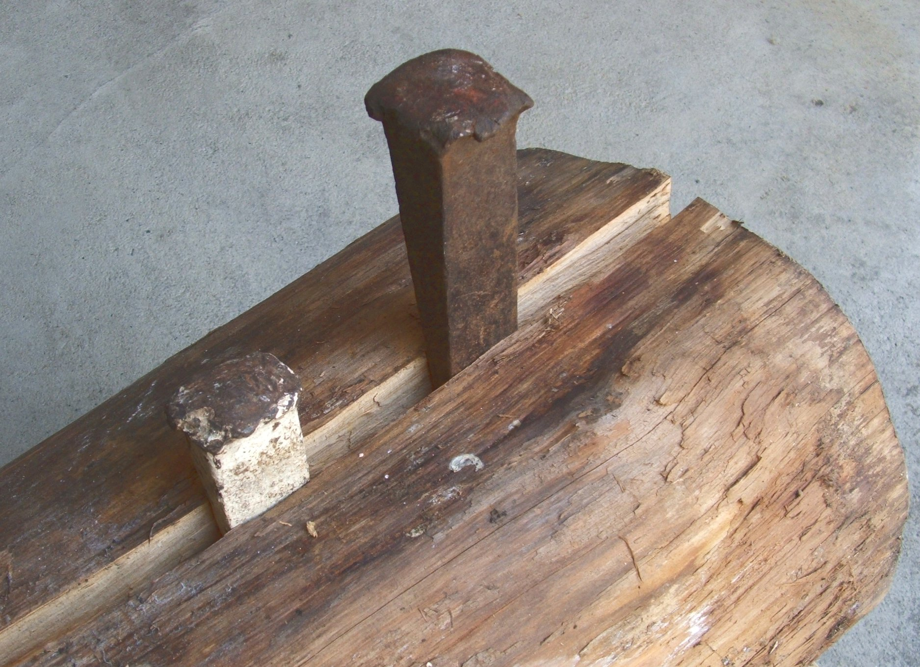 Wedge